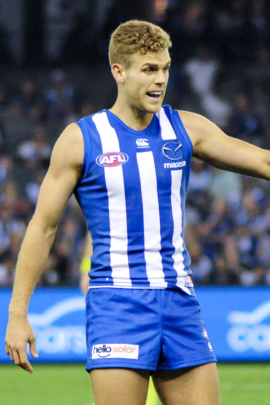 Ed Vickers-Willis during the AFL round five match between North Melbourne and Hawthorn on Sunday, 22 April 2018 at Etihad Stadium in Melbourne, Victoria.